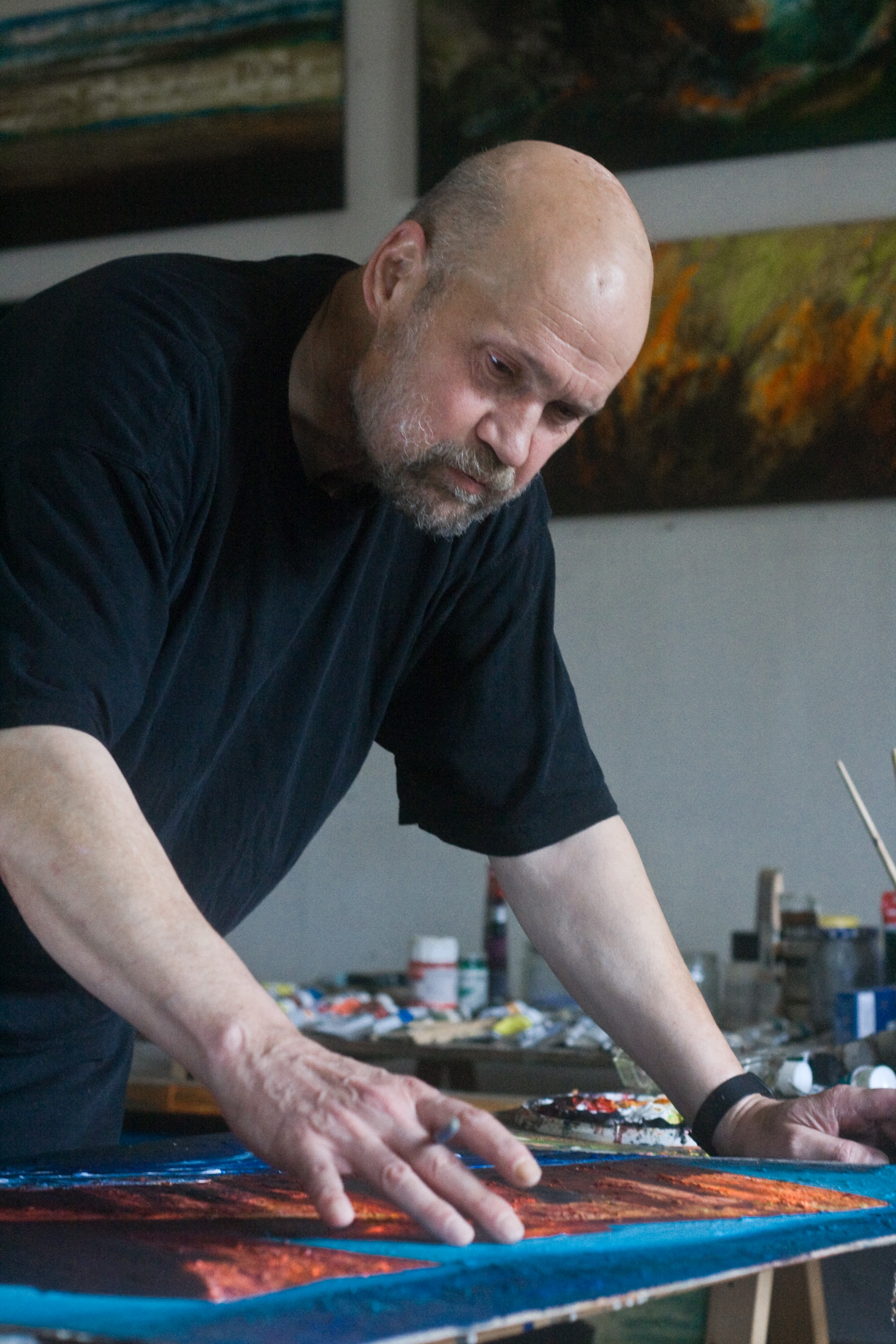 Künstlerportraits von Maximilian Metz (